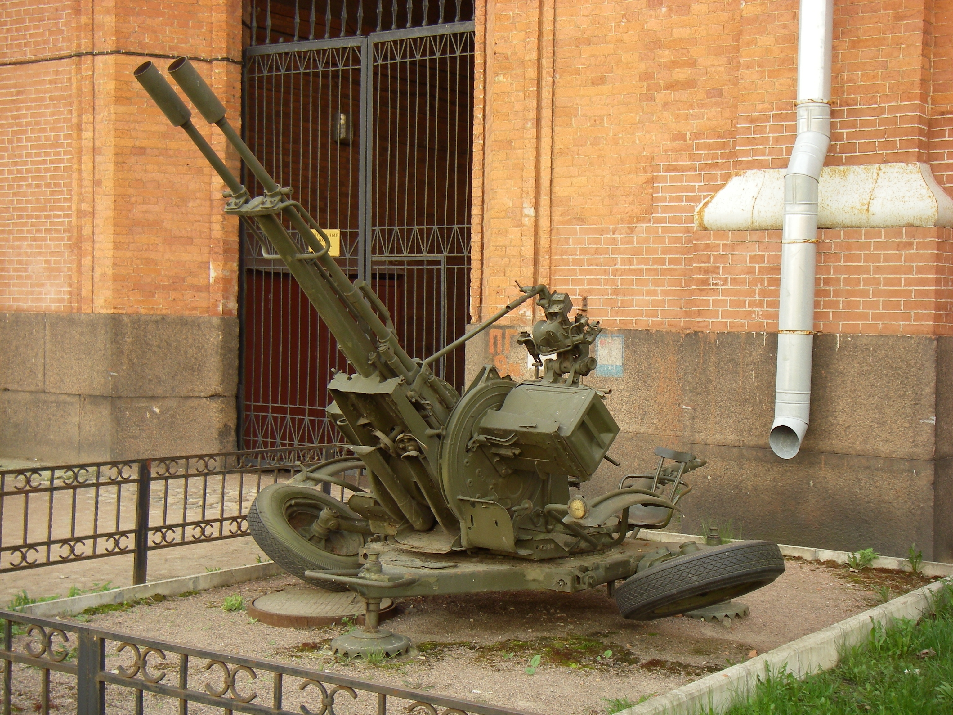 23-mm double anti-aircraft gun ZU-23-2 in Saint Petersburg Artillery museum